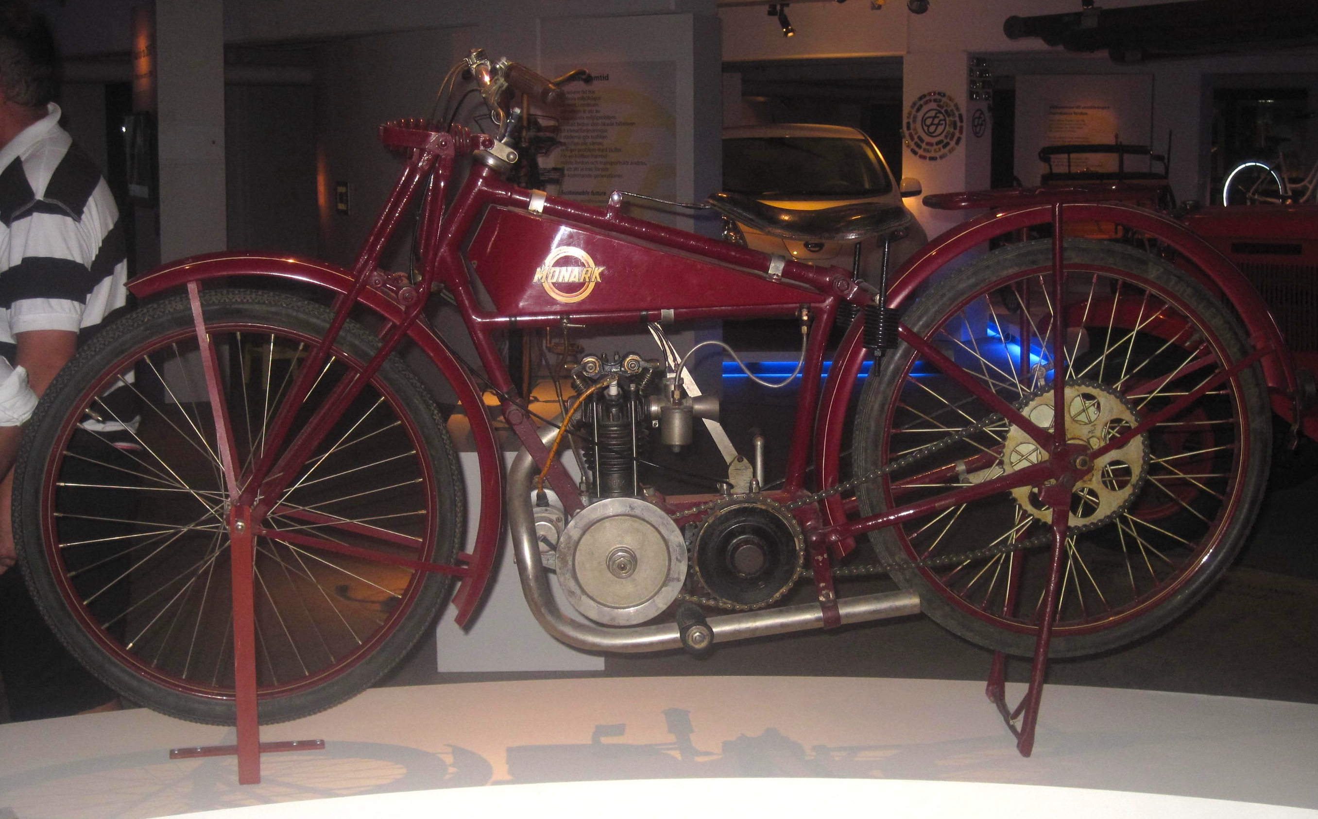 Swedish motorcycle from 1927: Monark EBE Sport. On display at Teknikens och Sjöfartens hus in Malmö.